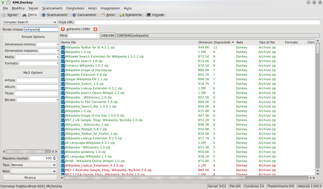 Screenshot